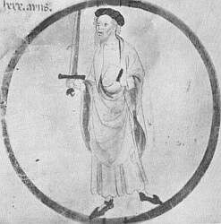 Raimund Berengar I. (Barcelona)